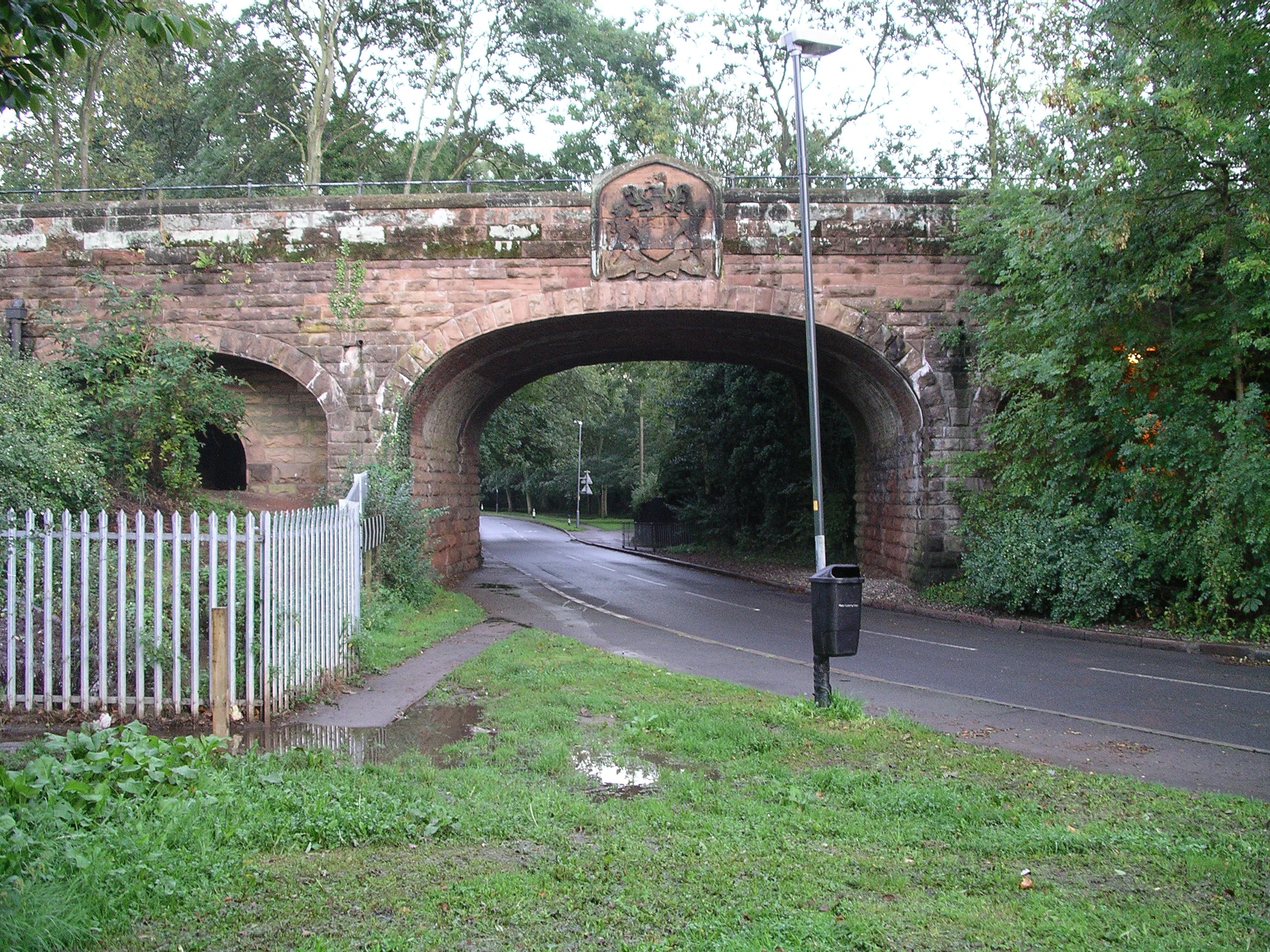 Photo taken by me in the evening of 22 September 2006. It shows the Coat of Arms Bridge on Coat of Arms Bridge Road, Coventry. It shows the western side of the brigde.